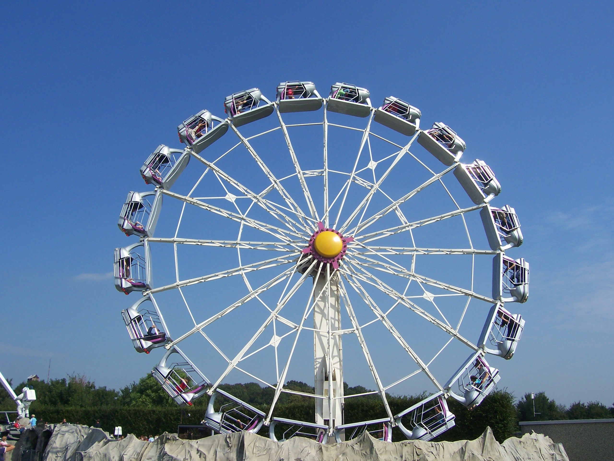 Enterprise Space Loop, Drievliet (Netherlands)